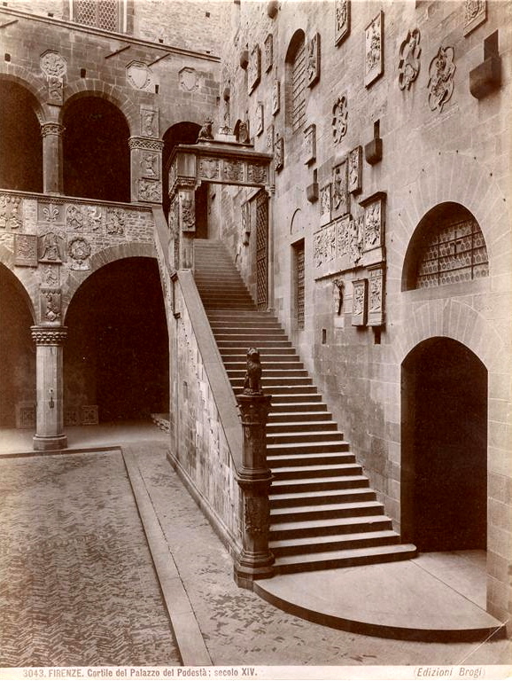 Giacomo Brogi (1822-1881), "Florence - Courtyard of the palazzo del Podestà, 14th century". Catalogue # 3043.